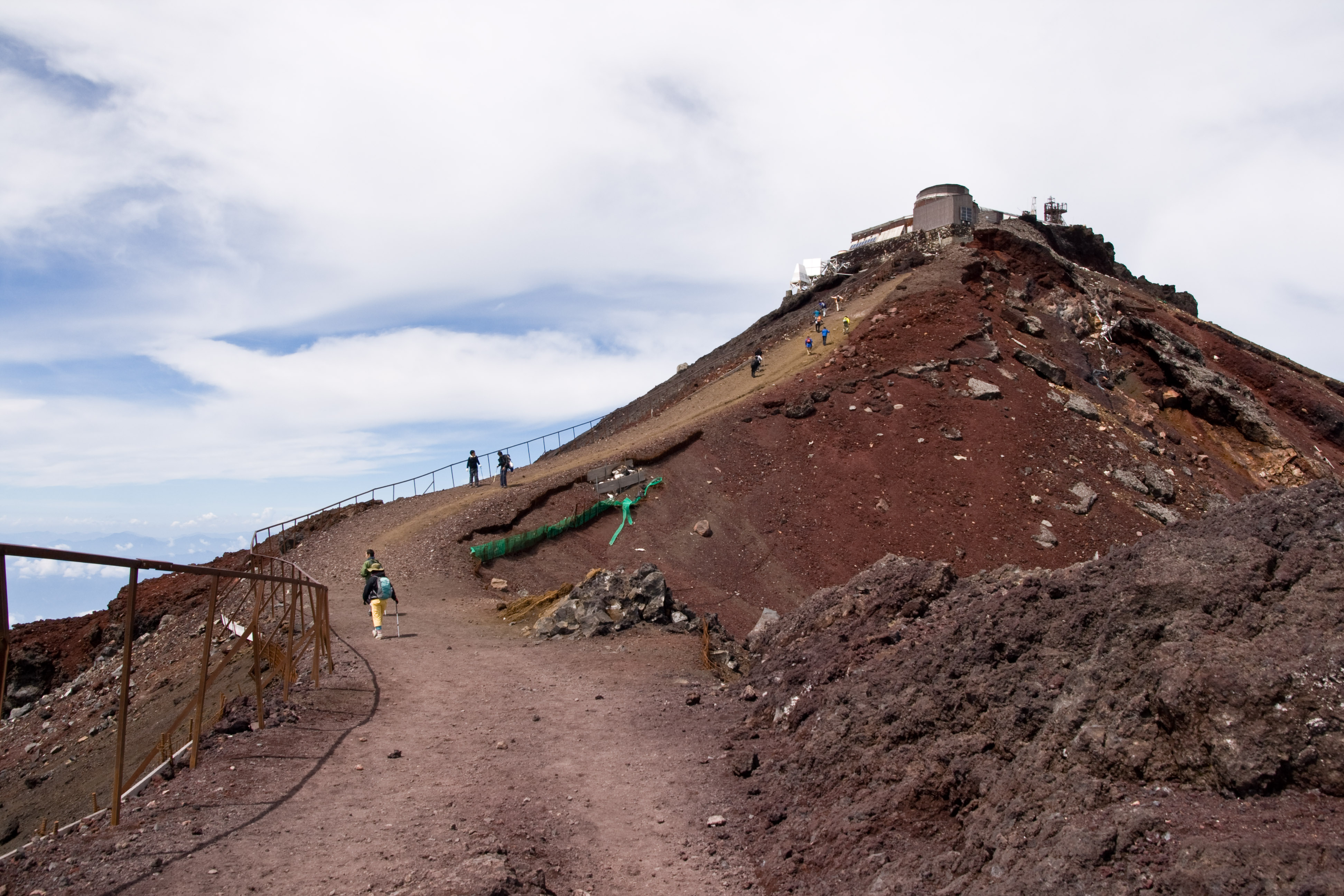 Hasshinpo (八神峰 はっしんぽう Hasshin-po ; it means Eight sacred peaks) of Mt.Fuji, Shizuoka and Yamanashi Prefectures, Honshu, Japan.